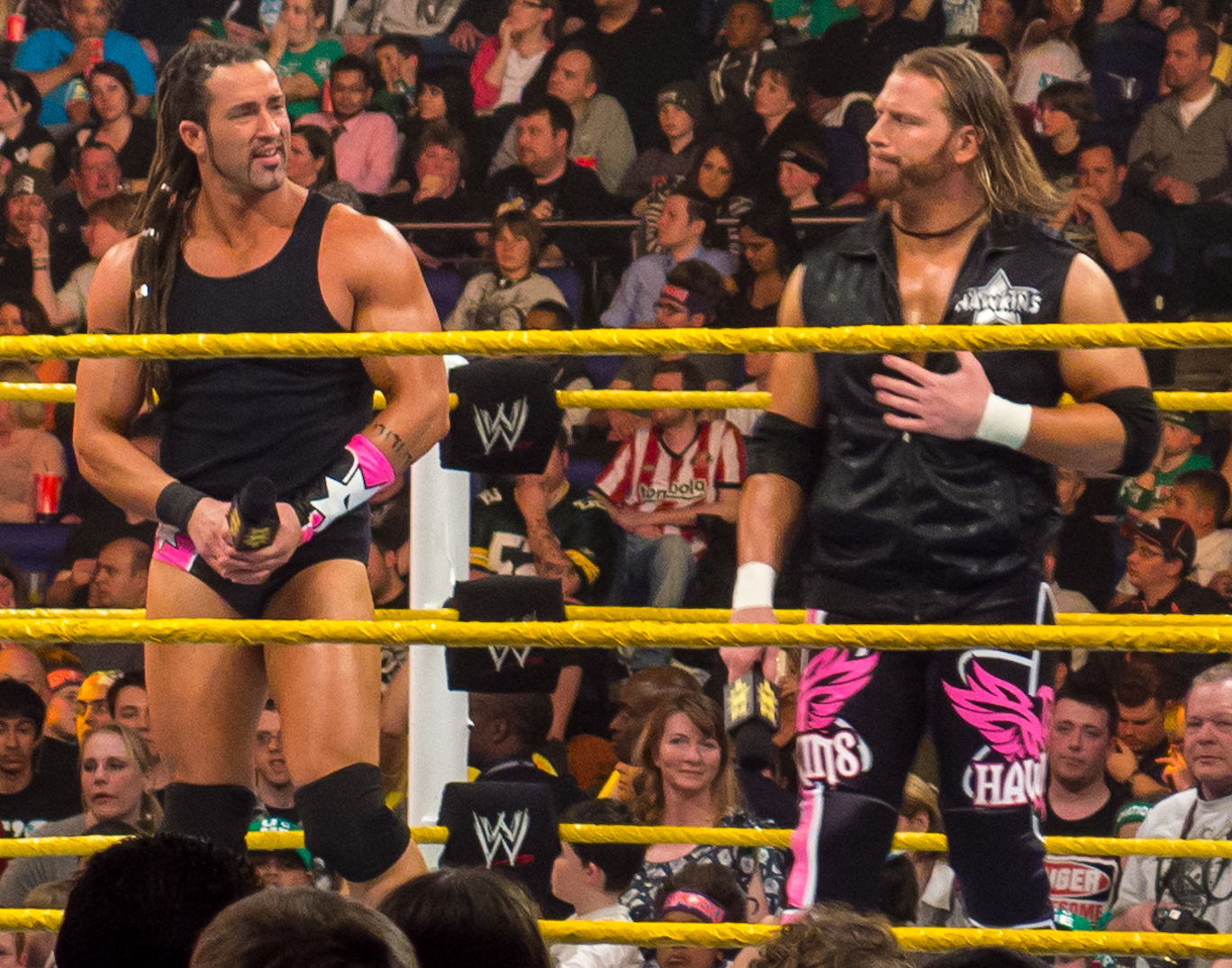 Curt Hawkins and Tyler Reks exchange glances before being booked to fight one another to save their job on NXT Redemption. Originally taken April 17, 2012 at the O2 Arena in London, England.